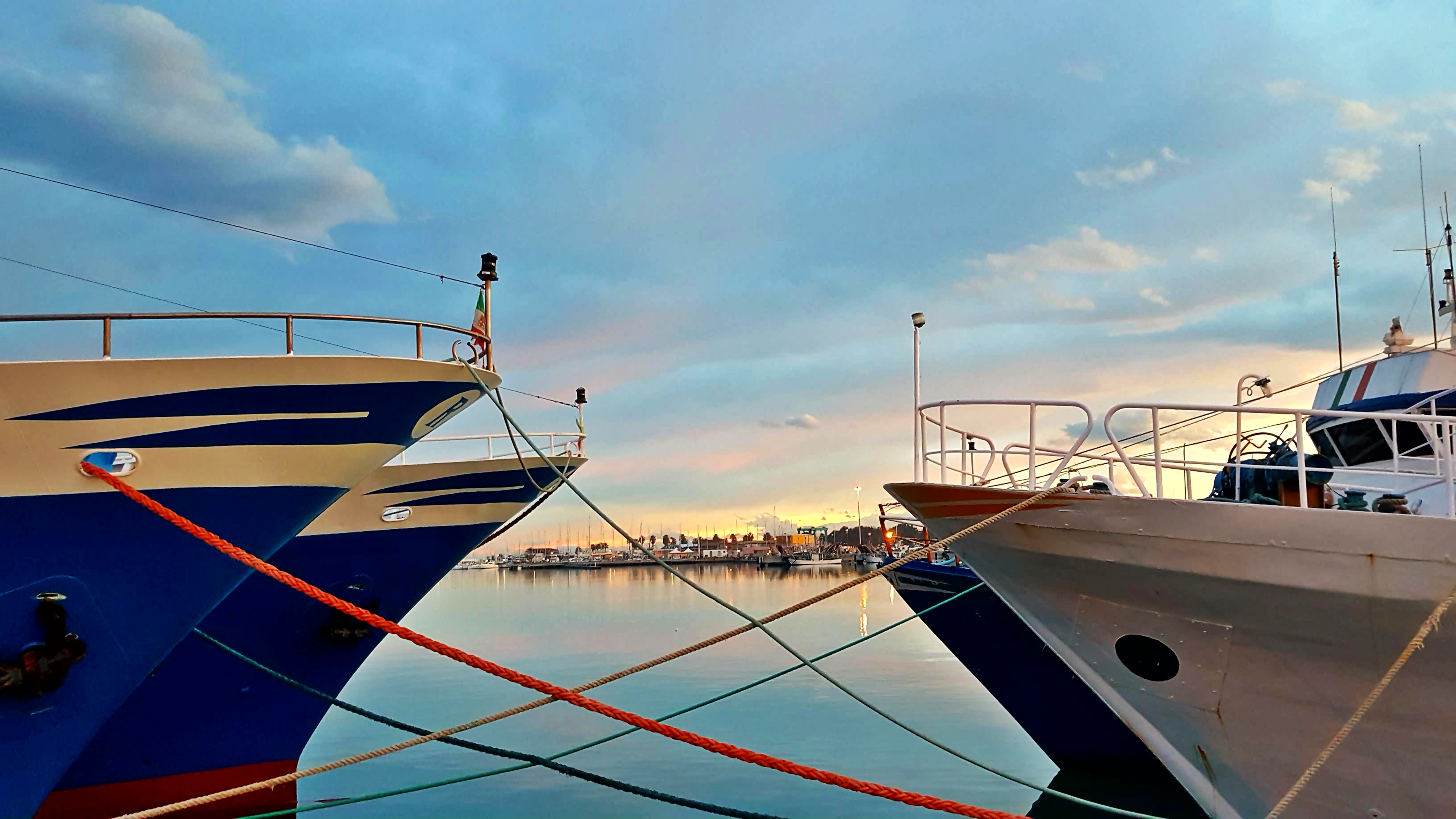 Fishing boats on the quay of the north pier of the port of San Benedetto del Tronto